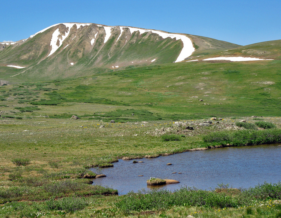 Alpine tundra along the Continental Divide south of Independence Pass, Colorado, USA